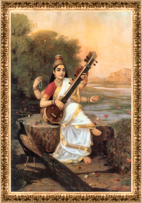 Raja Ravi Varma Paintings in Baroda